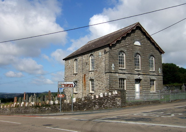 Baptist chapel, Pen-y-bryn 1869 chapel situated on a crossroads along with a pub and a small collection of houses, a couple of miles west of Cilgerran. The banded stone construction is typical of the area.